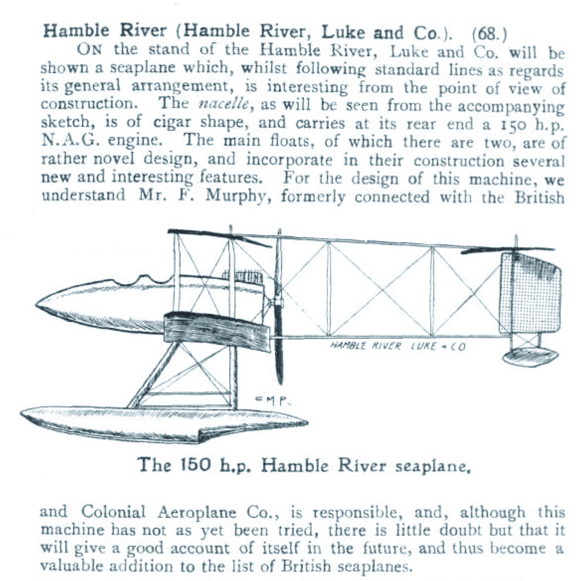 article extract from magazine ‘Flight’ March 1914